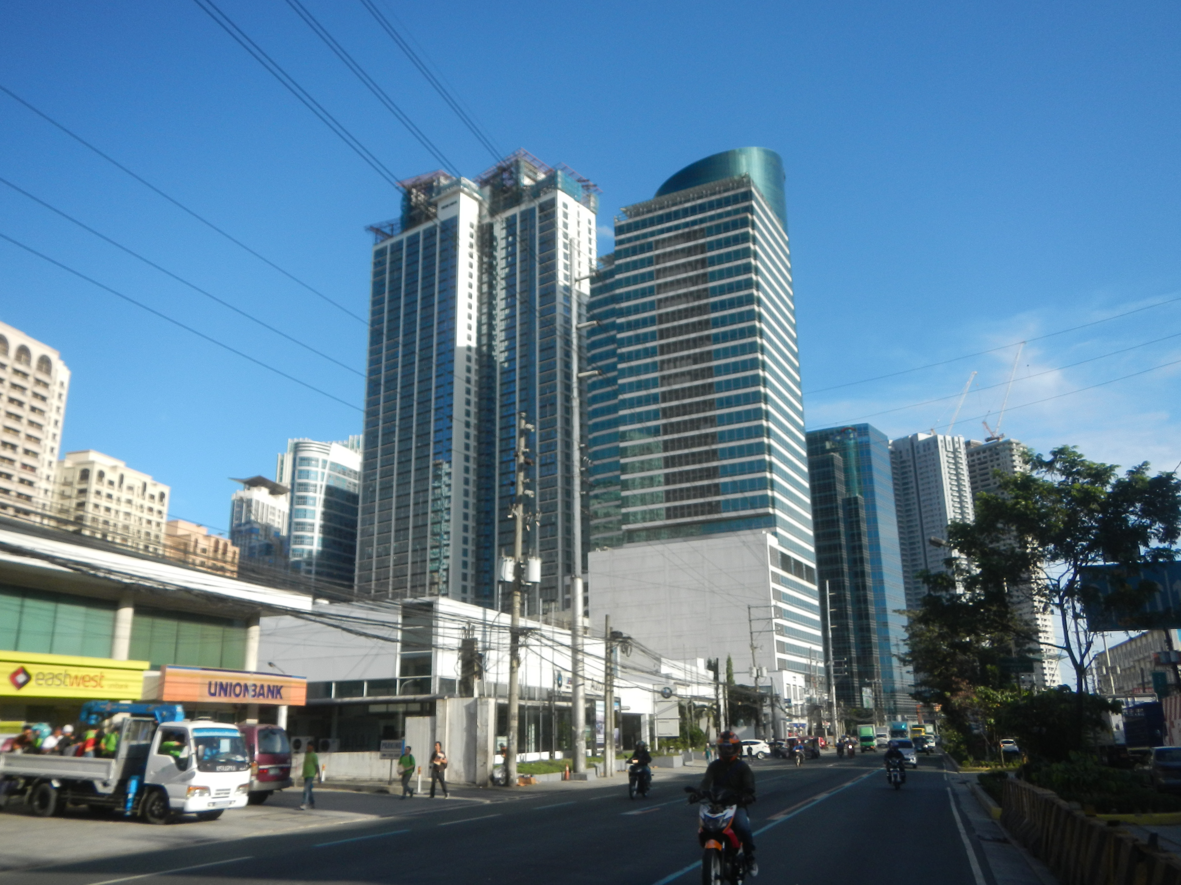 List of barangays of Metro Manila Mercury Drug Mercury Drug opened a new building, MDC100, in Eastwood City 14°36'34"N 121°4'47"E Eastwood City Legislative districts of Quezon City Districts 3, Barangays of Quezon City, Barangay Bagumbayan Eastwood 14°36'25"N 121°4'56"E Ugong Norte 14°35'44"N 121°4'12"E comprises of 2 exclusive villages, the Corinthian Gardens and Green Meadows Subdivision and Edsa Shrine, and Robinson's Galleria beside Libis Eastwood 14°36'57"N 121°4'35"E from Bayanihan Project 4 14°36'56"N 121°4'9"E Saint Ignatius 14°36'48"N 121°4'23"E Blue Ridge B 14°37'4"N 121°4'33"E Blue Ridge A 14°37'8"N 121°4'24"E Project 4, Quezon City along E. Rodriguez, Jr. Avenue corner Bonny Serrano Avenue and Katipunan_Avenue corner C. P. Garcia Avenue, of the Carlos P. Garcia Avenue (C-5) Carlos P. Garcia Avenue Circumferential Road 5 interconnecting with the Quezon City Welcome Monument Boundary Sign in Legislative district of Pasig City List of barangays of Metro Manila, Barangay Ugong 14°34'54"N 121°4'21"E Ugong, Pasig beside Rosario 14°35'33"N 121°5'35"E Rosario Pasig City (Note: Judge Florentino Floro, the owner, to repeat, Donor Florentino Floro of all these photos hereby donate gratuitously, freely and unconditionally all these photos to and for Wikimedia Commons, exclusively, for public use of the public domain, and again without any condition whatsoever).